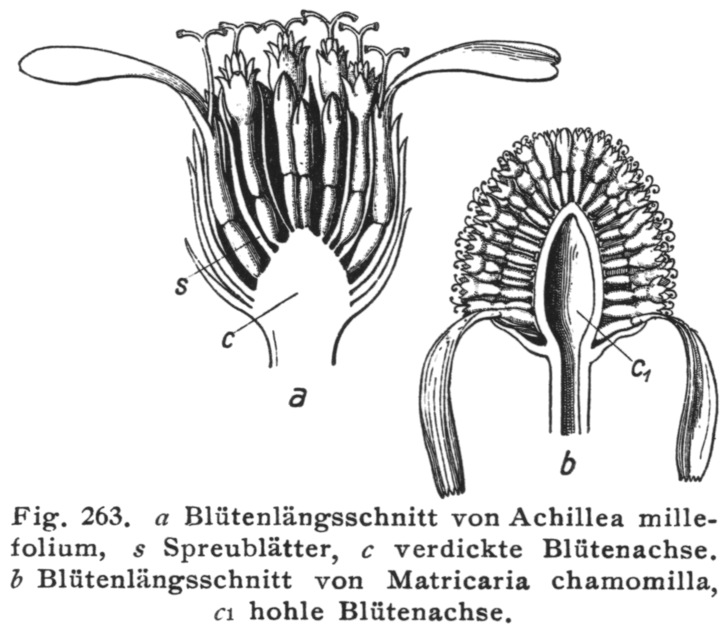 Figure 263 from Hegi, G.: Illustrierte Flora von Mittel-Europa, p. 138. Caption: Fig. 263 a Longitudinal section of Achillea flower head, s bracts, c engrossed receptacle. b Matricaria chamonilla, c1 hollow receptacle.